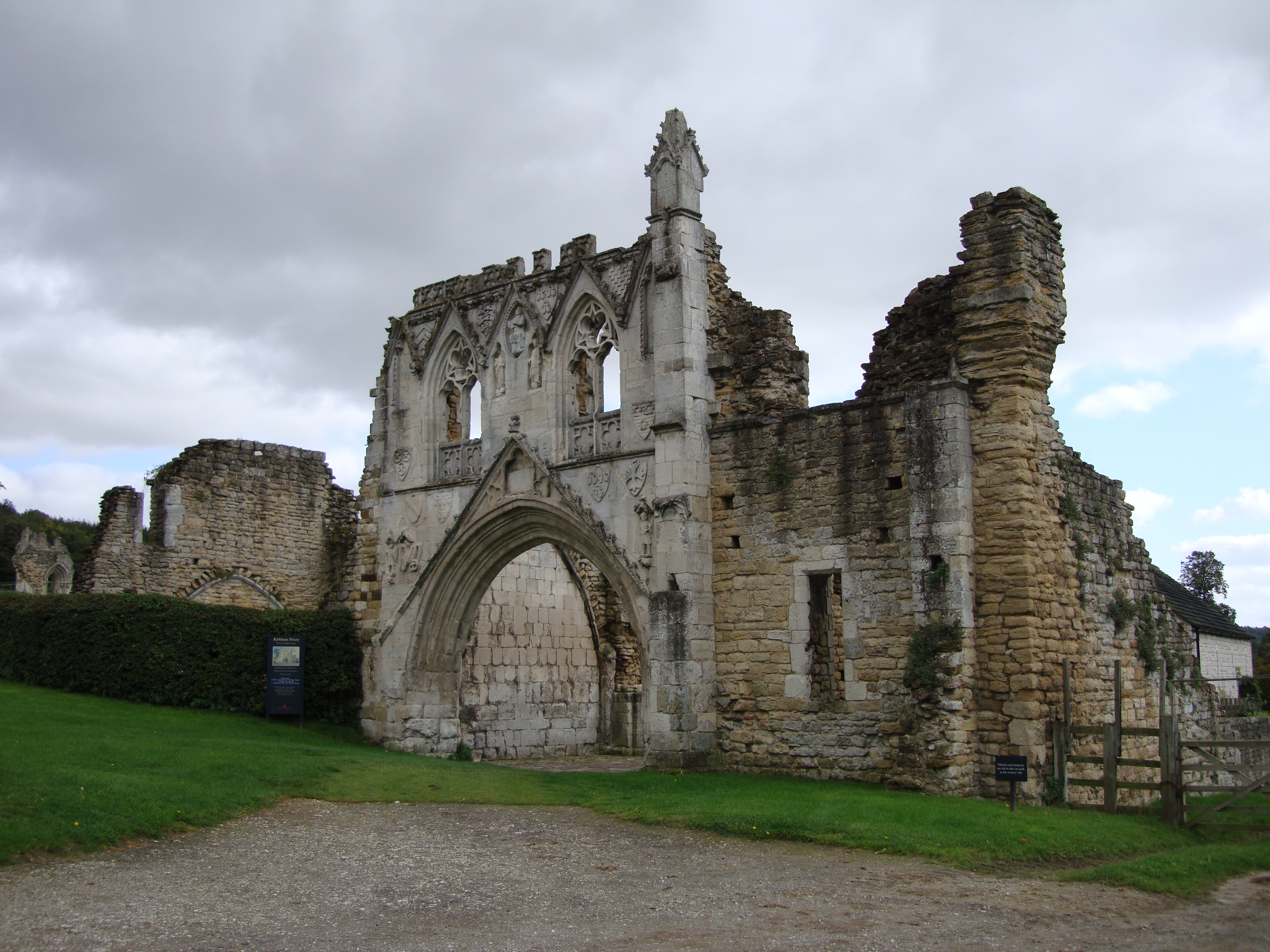 Photograph of Kirkham Priory, North Yorkshire, England